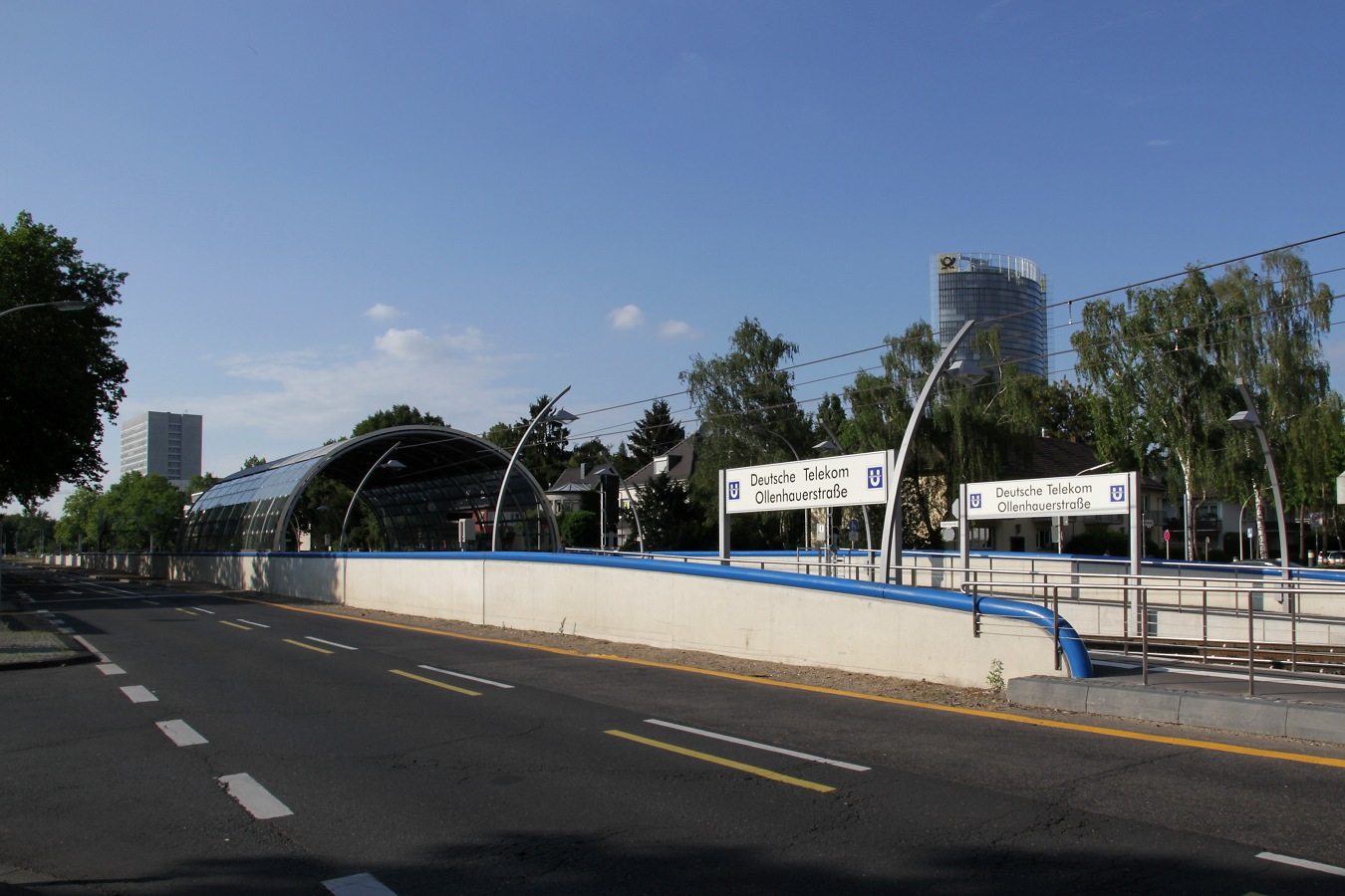 Light rail station Deutsche Telekom/Ollenhauerstraße in Bonn